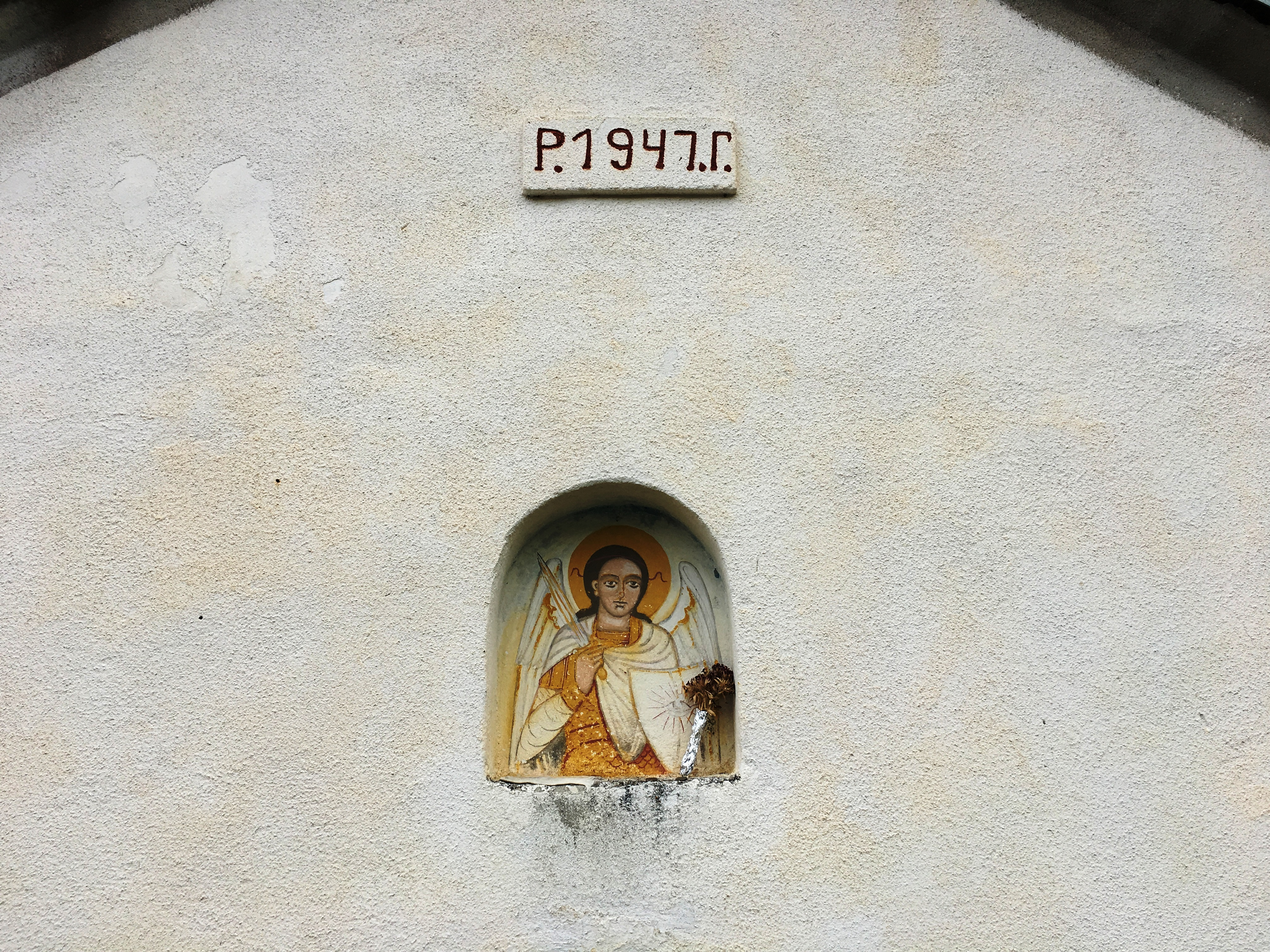 Fresco depicting Michael the Archangel above the opening door of the eponymous church in the village of Blizansko